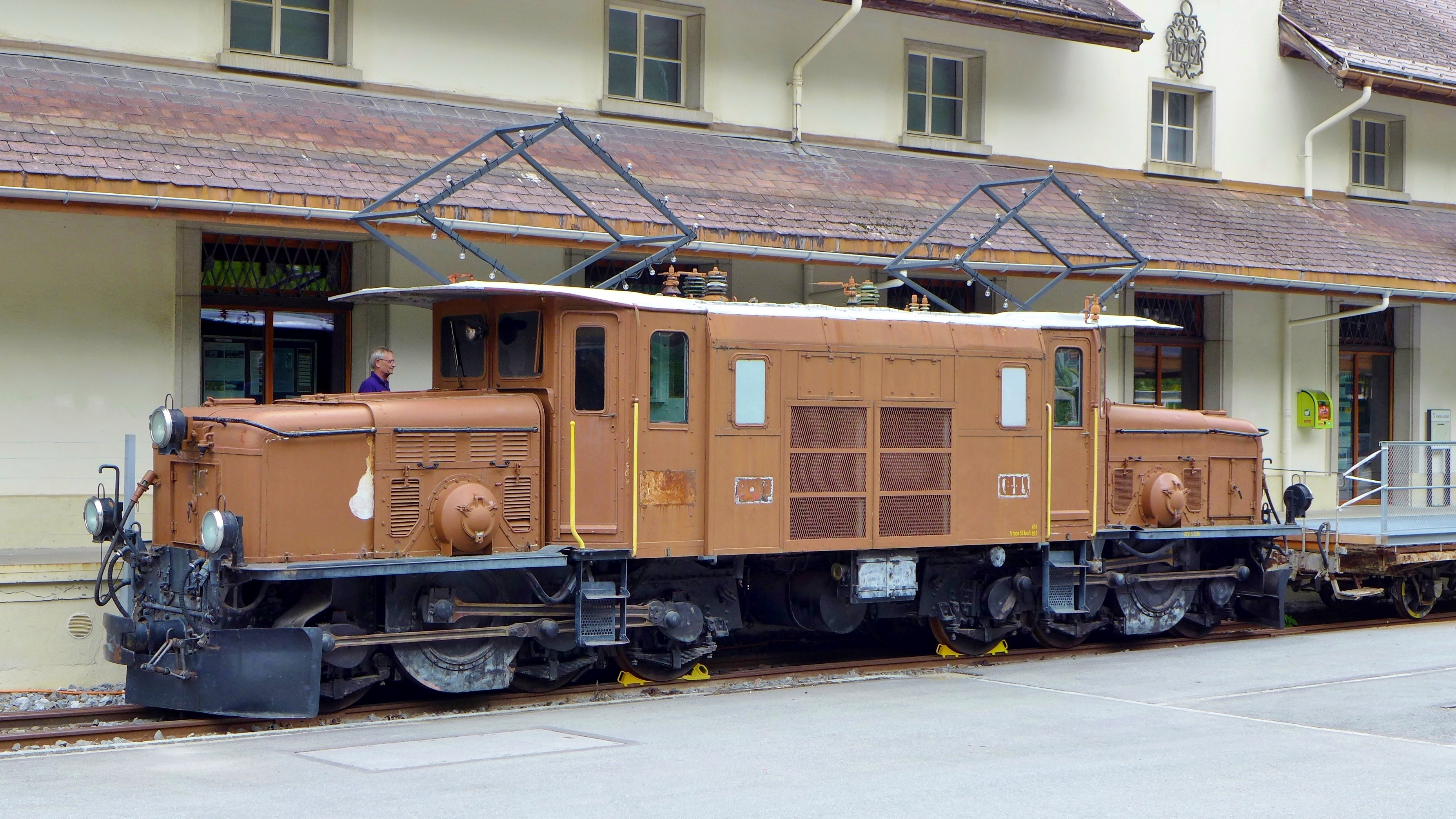 Preserved Rhaetian Railway class Ge 6/6 I electric locomotive no. 407 on display outside the Bahnmuseum Albula at Bergün/Bravuogn railway station, Switzerland.